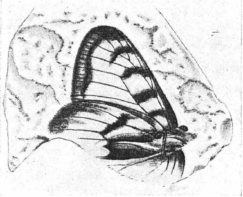 Doritites bosniackii